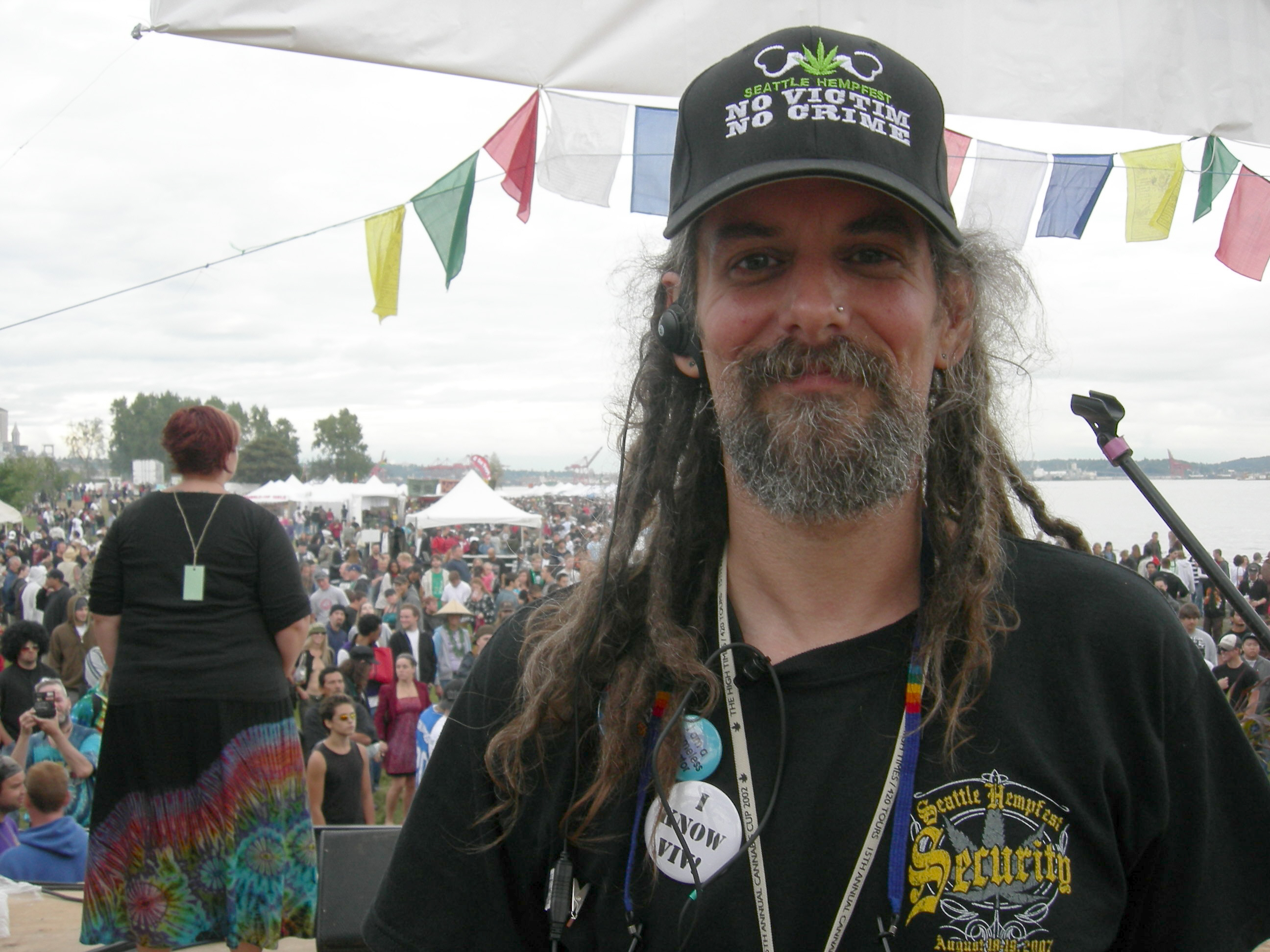 Seattle Hempfest Executive Director Vivian McPeak on the Share Parker Main Stage of Seattle Hempfest, 2007.